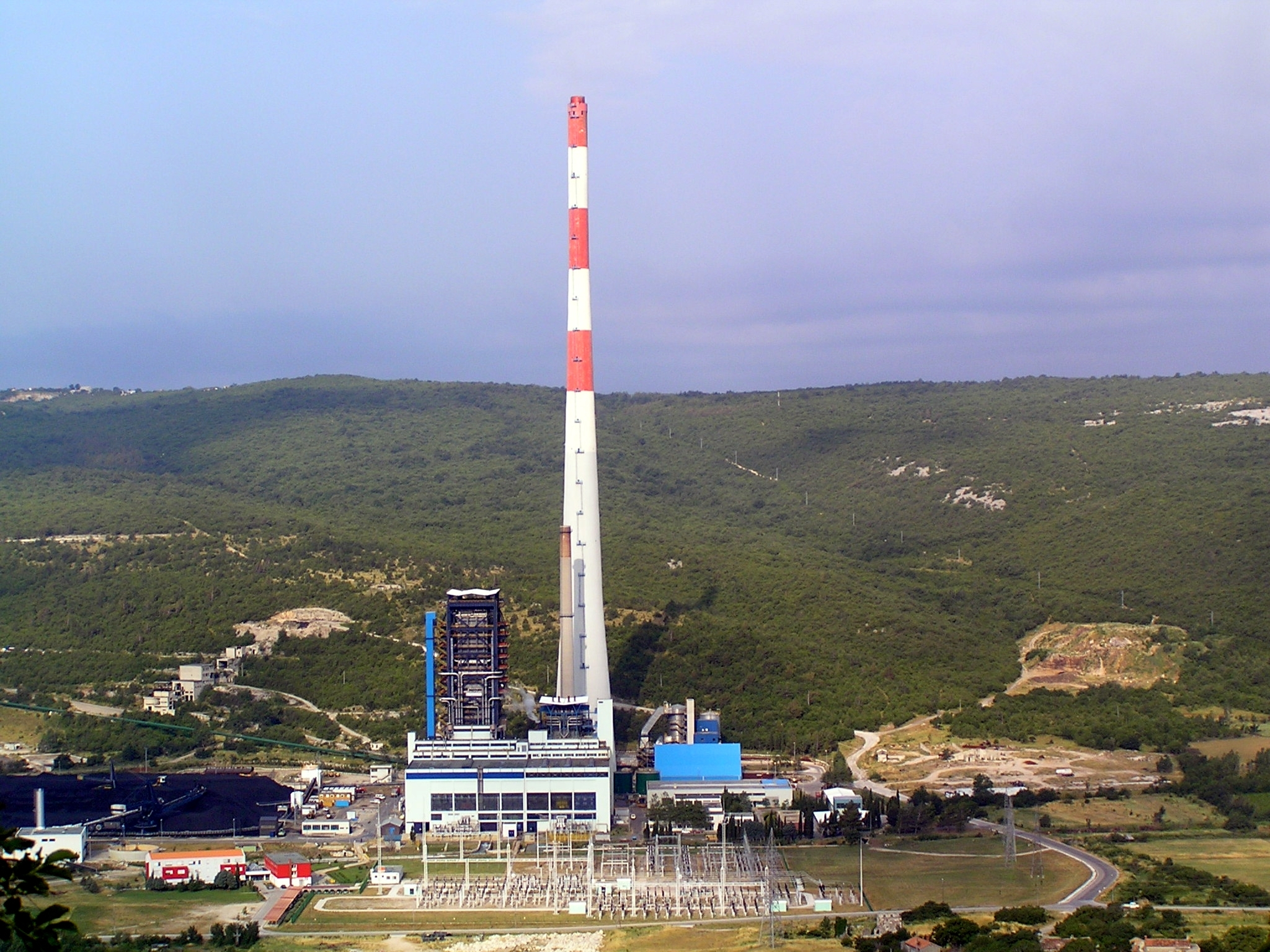 Plomin power plant, CroatiaHrvatski: Termoelektrana Plomin, Hrvatska